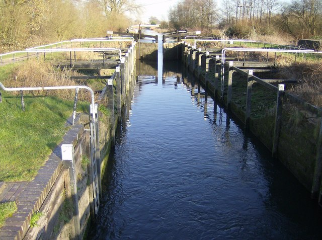 Monkey Marsh Lock A totally rebuilt example of a turf-sided lock (see Garston Lock on SU6971), incorporating modern safety features. Rebuilt in 1989, it has mellowed with age.